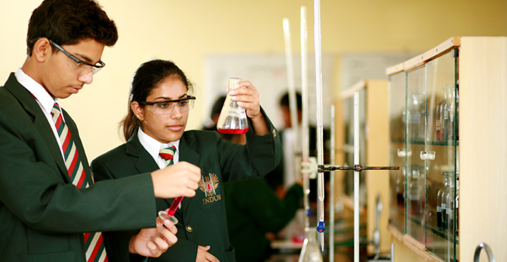 School chemistry lab